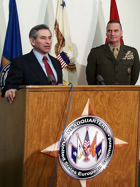 Deputy Defense Secretary Paul D. Wolfowitz (left) and Marine Corps General James L. Jones meet the press Jan. 16, 2003, following Jones' assumption of command of U.S. European Command in Stuttgart, Germany. The general will also serve as NATO's supreme allied commander Europe. Jones is the first Marine to hold the two positions.